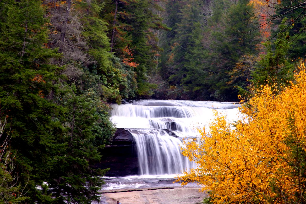 Triple Falls at the DuPont State Forest. Transylvania County, North Carolina, USA.